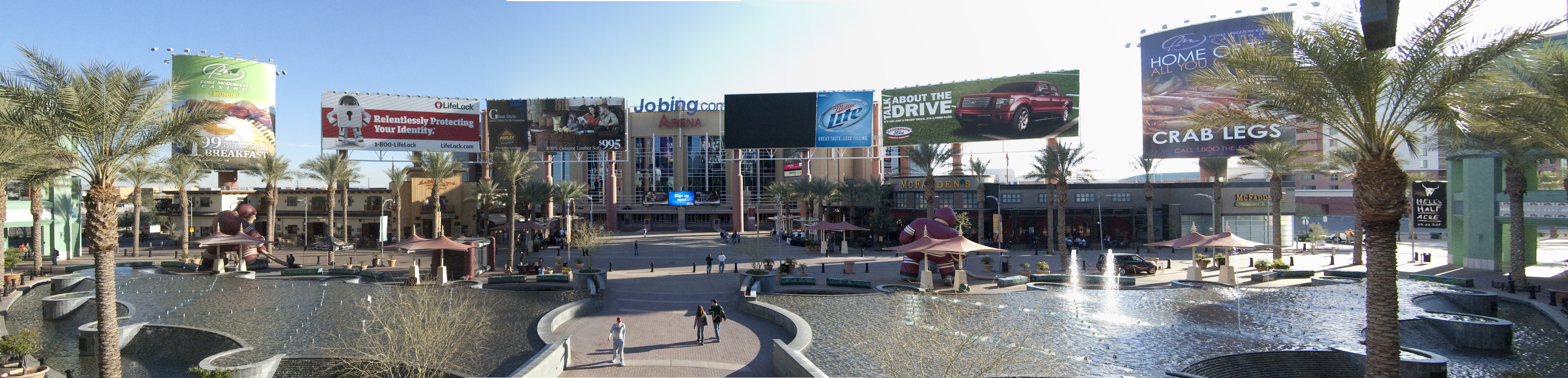 A view of Westgate City Center from the upper level.